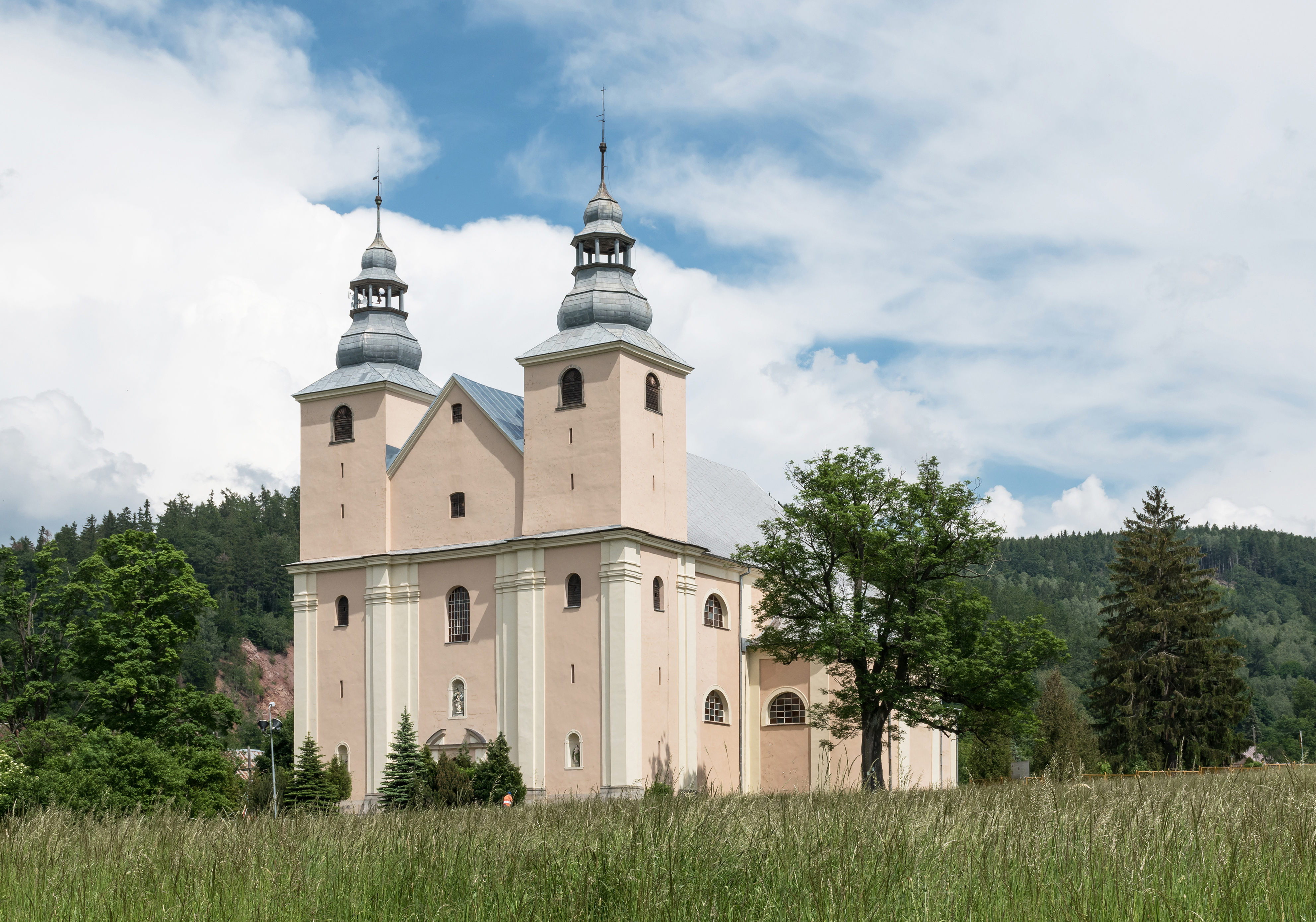 Church of the Assumption in Nowa Wieś